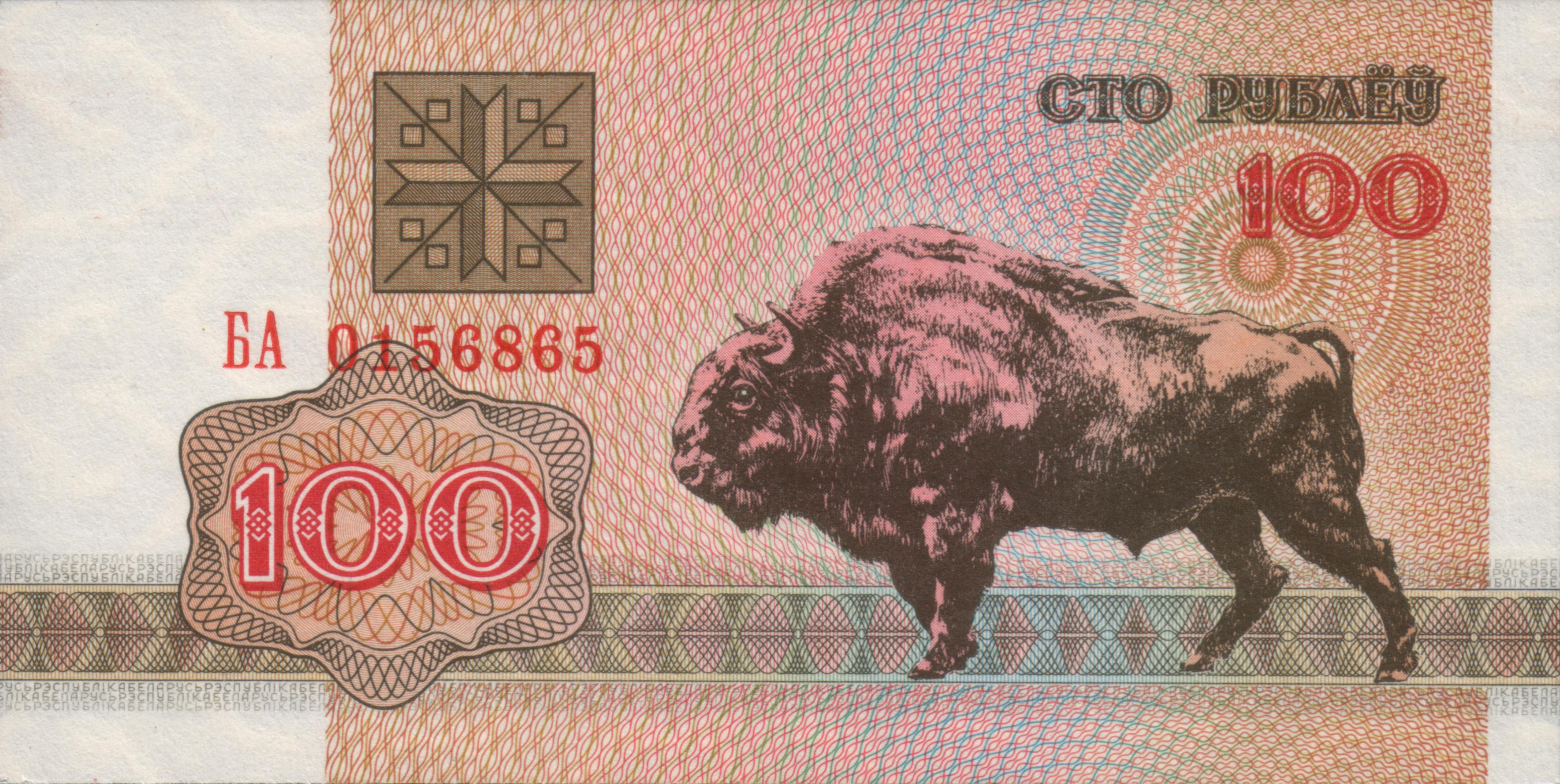 100 roubles of Belarus (1992)